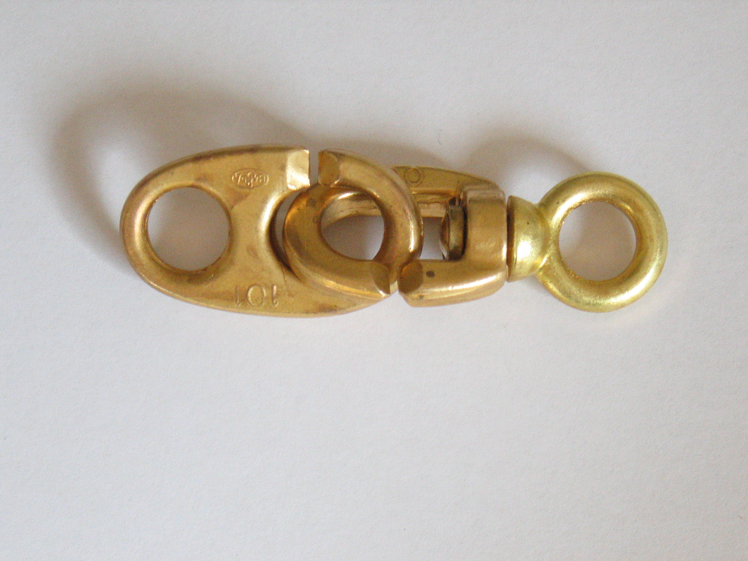 This is a photo of an Inglefield clip.